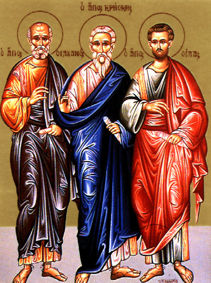 Three of the Seventy Disciples, from the left: Silvanus, Crescens and Silas.